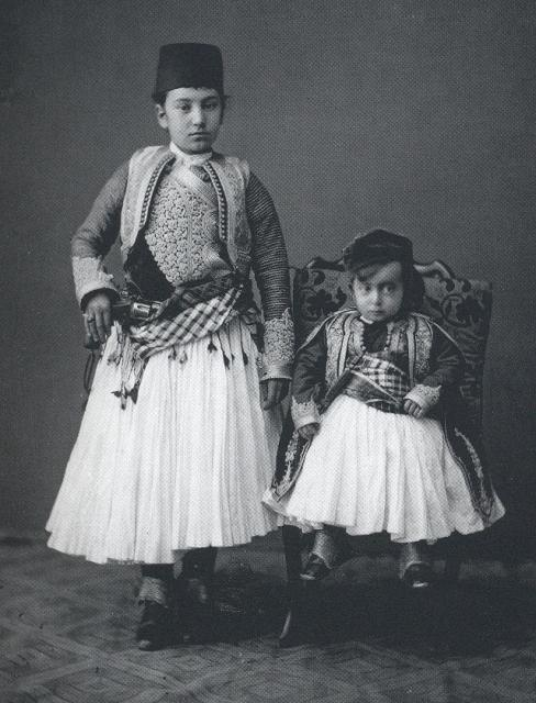 Fustanella Costumes